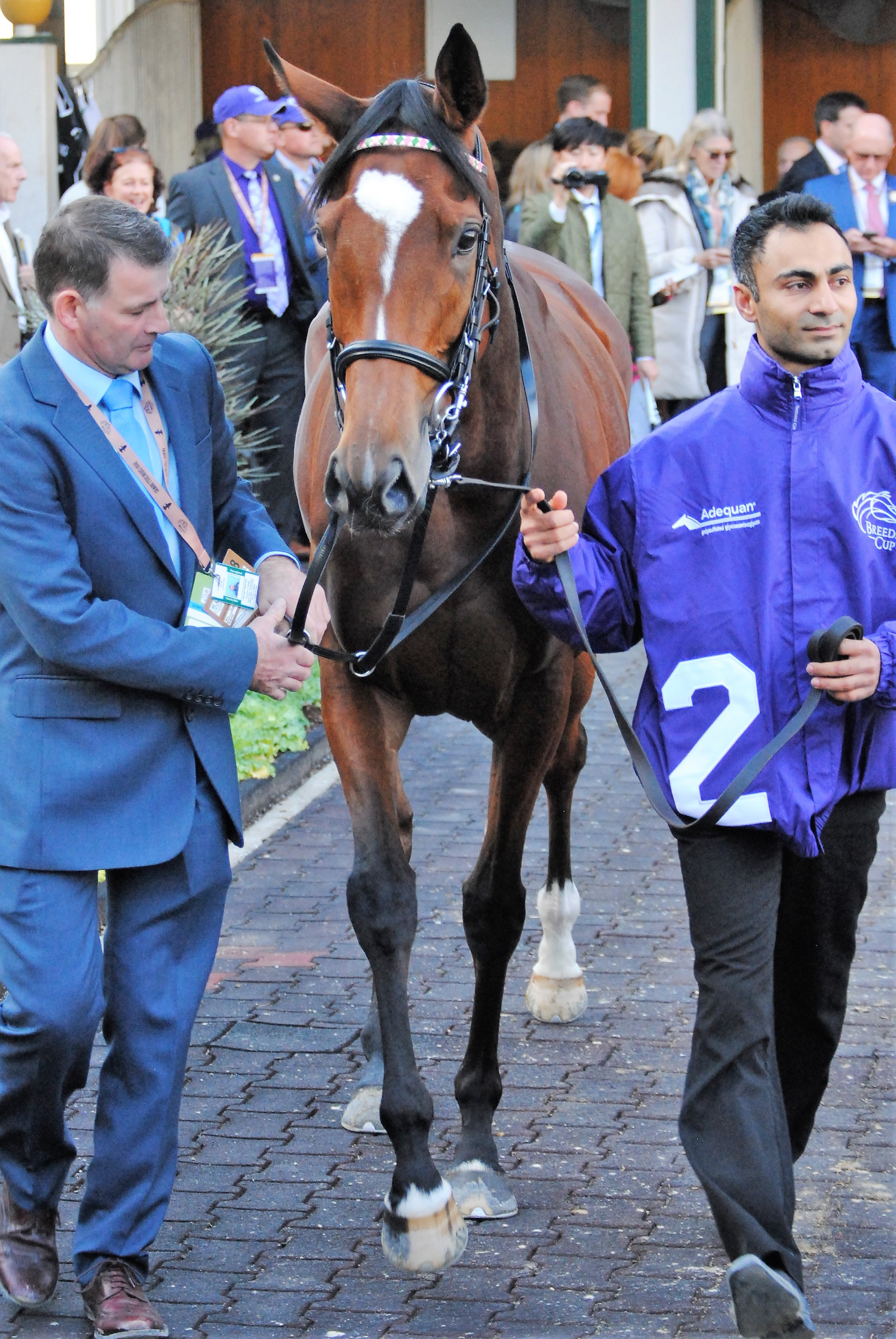 Enable at the 2018 Breeders' Cup